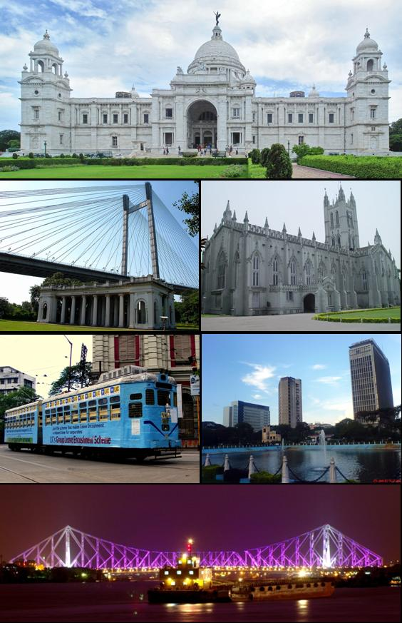 From top going clockwise: Victoria Memorial, St. Paul's Anglican Cathedral, Central Kolkata, Howrah Bridge, Kolkata tram, Vidyasagar Setu Bridge